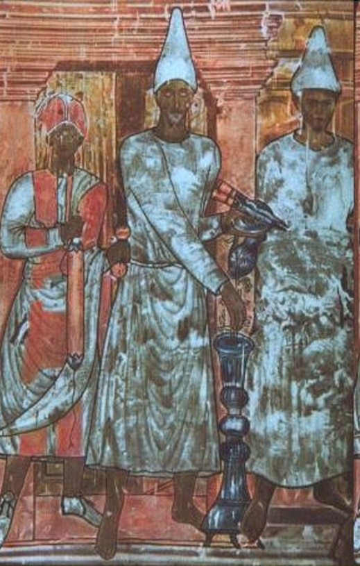 Fresco of Conon - depicts a sacrifice being made on behalf of a family, by the chief priest Conon and two assistants. Temple of the Palmyrene gods in Dura-Europos. 1st. century. A.D. Graeco-Iranian style.